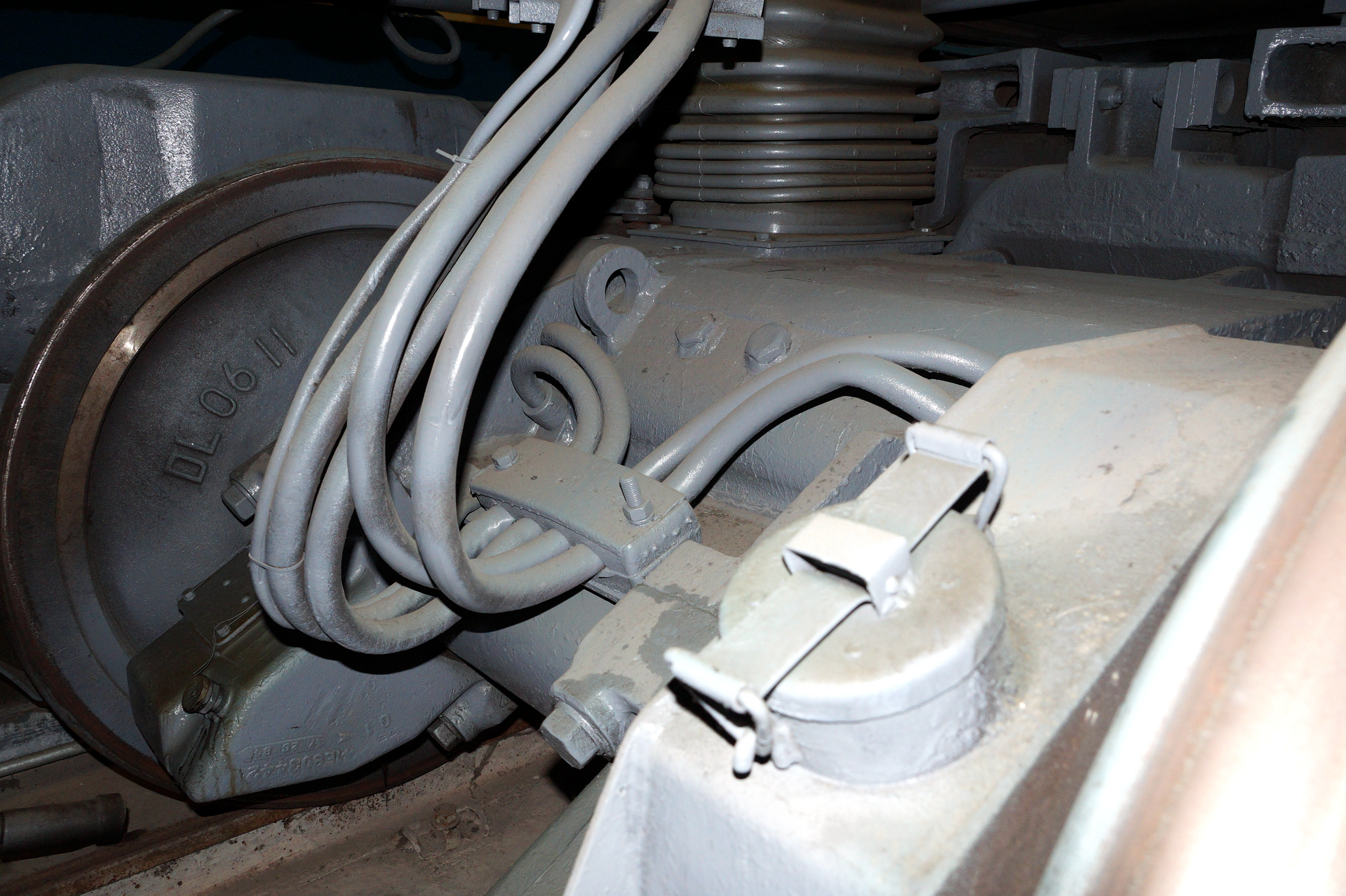 The General Electric 5GE752AF8 traction motor of China Railways ND5-0049 diesel locomotive